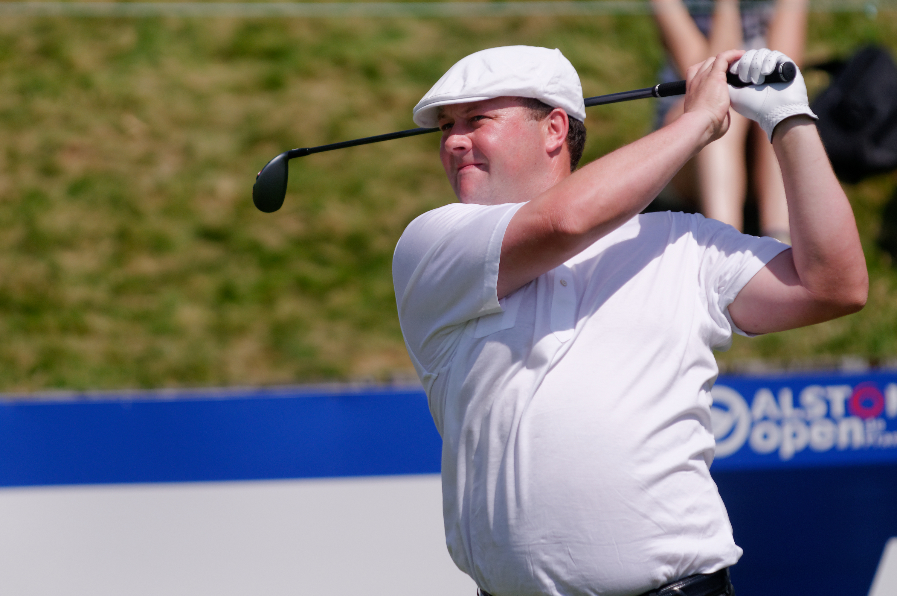 Scotland's Chris Doak tees off on the 1st hole during round 3 of the French Golf Open at the Golf National in Saint Quentin en Yvelines, Saturday July 6th 2013.